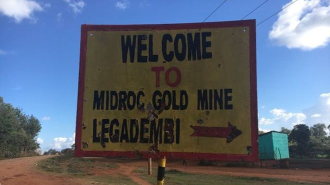 Lega Dambi is found in Guji Zone, Oromia. It is the large gold scale mining affecting the area.